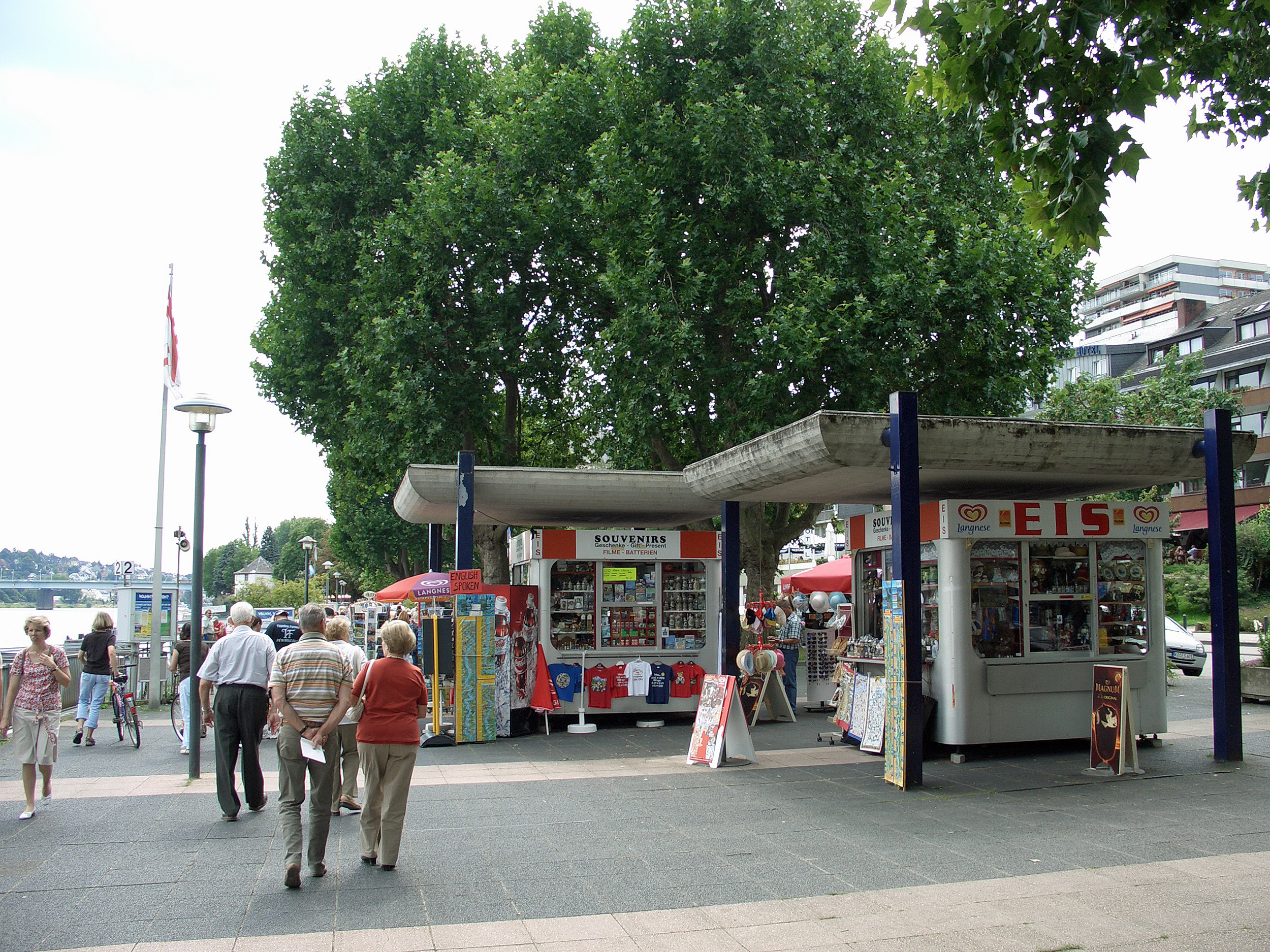 Rhine park in Koblenz